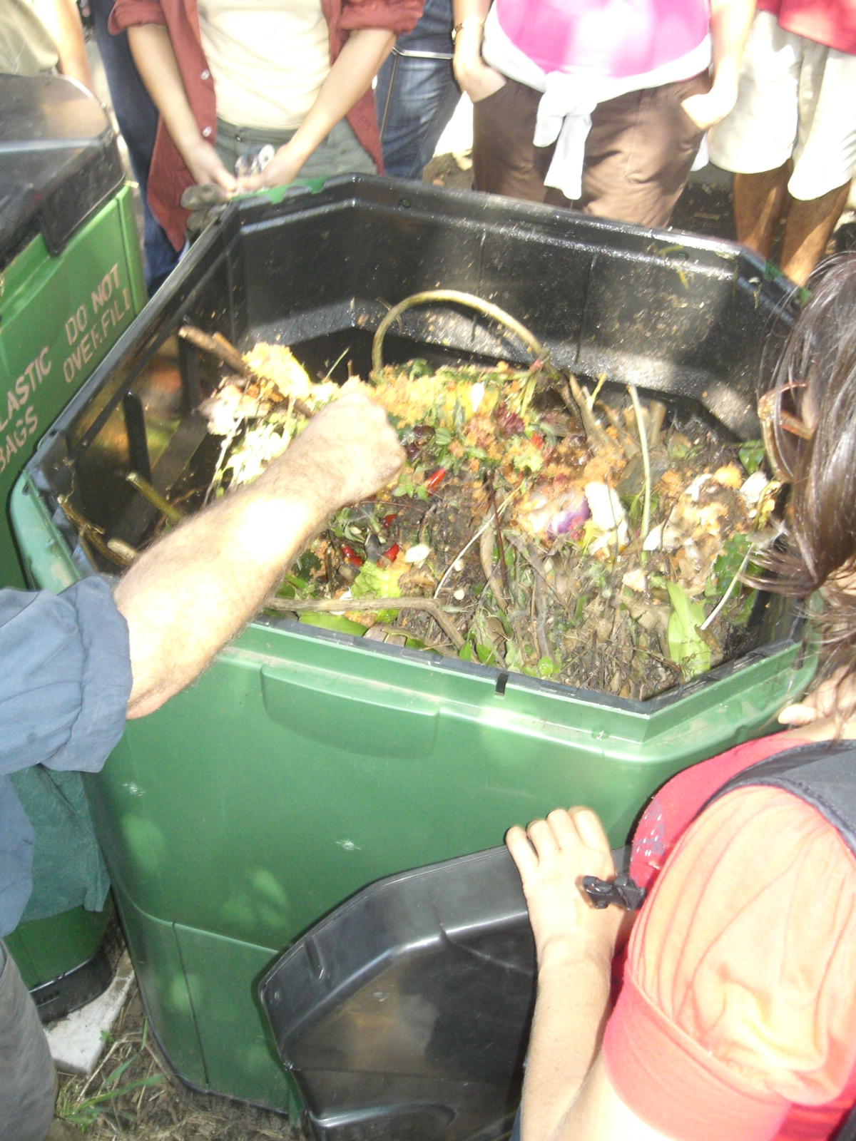 this is a bin full with composting material